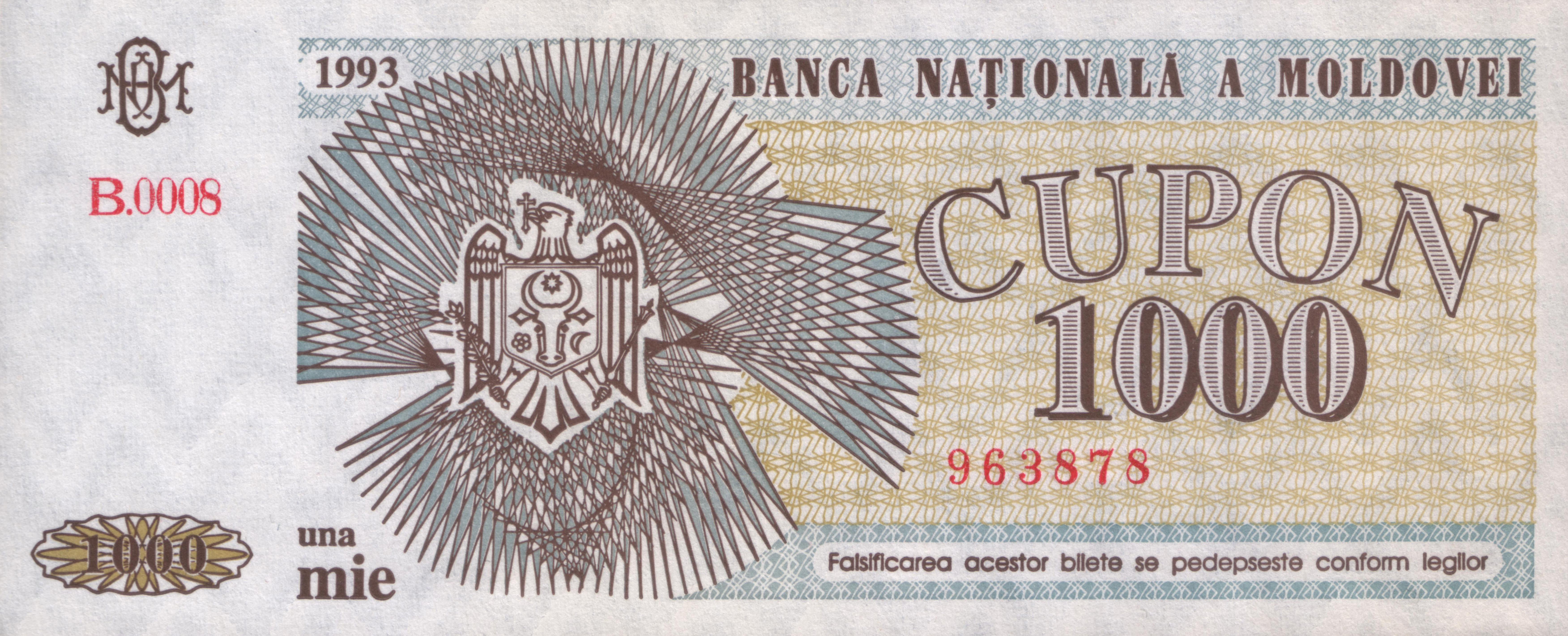 1000 cupons (1993)